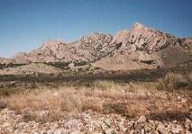 Dragoon Mountains, Arizona